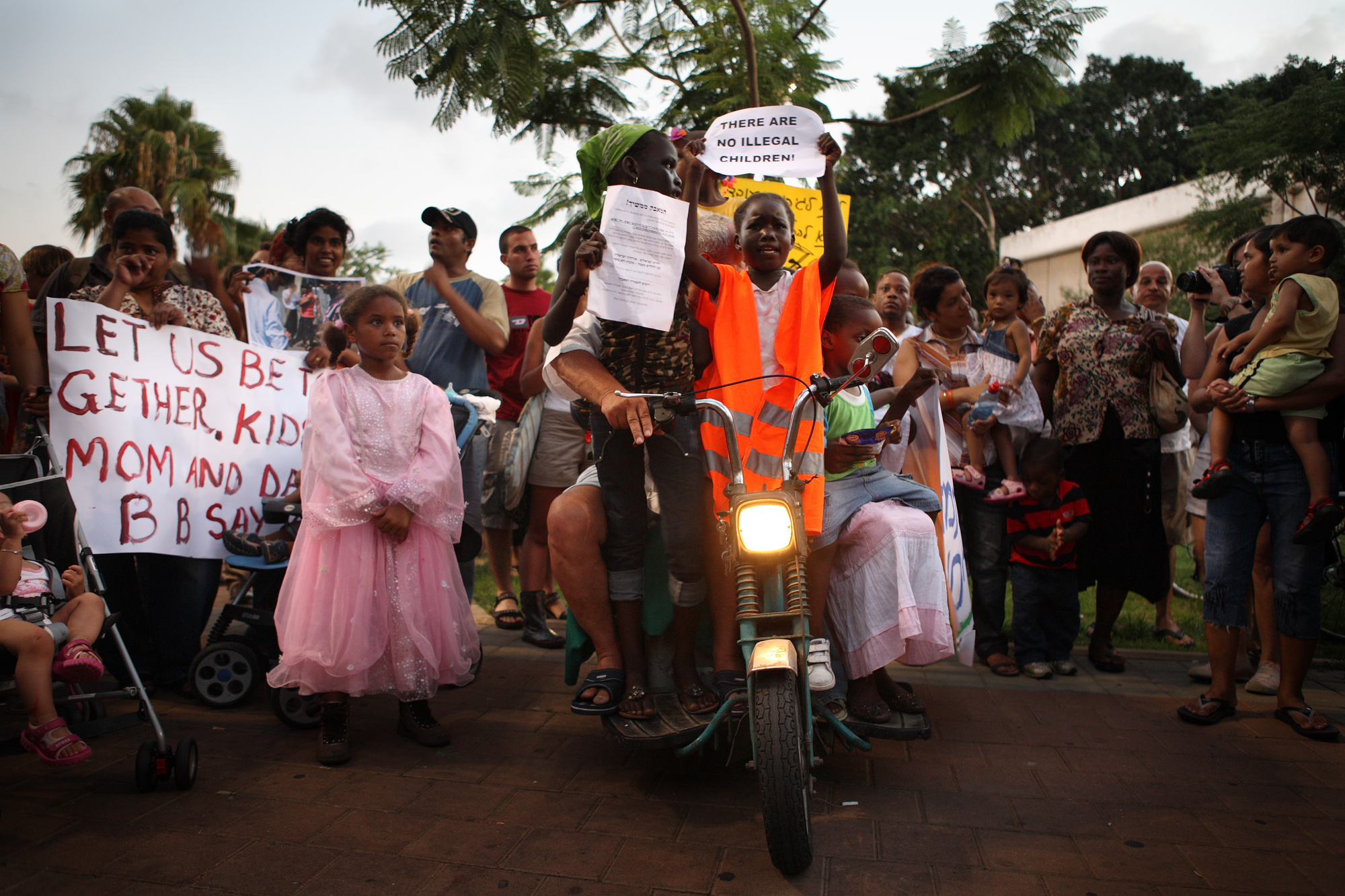 Demonstration against the expulsion of illegal invaders and their families from Israel, in Neve Sha'anan, Tel Aviv, 1.8.2009